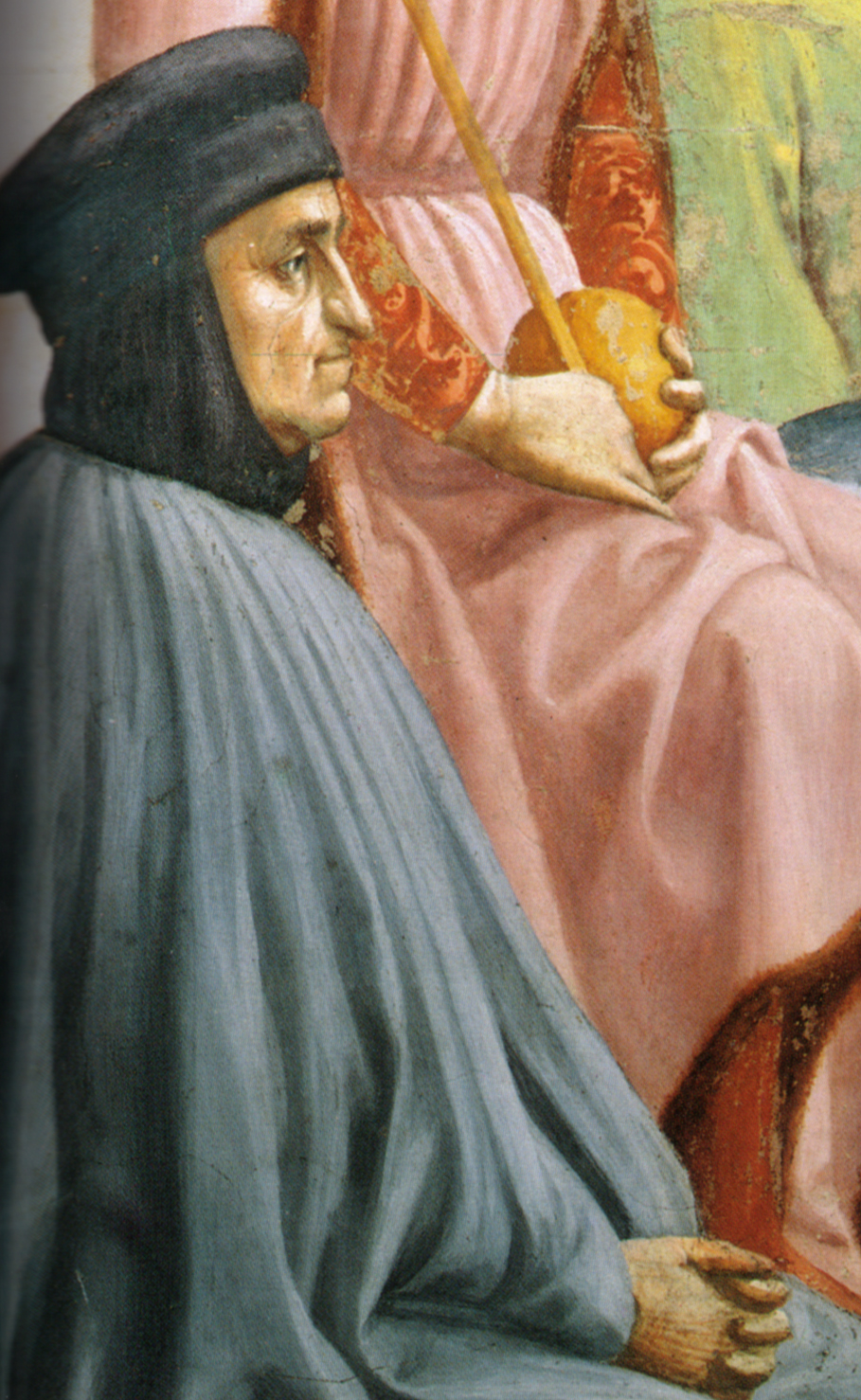 Raising of the Son of Teophilus and St. Peter Enthroned 16.jpg